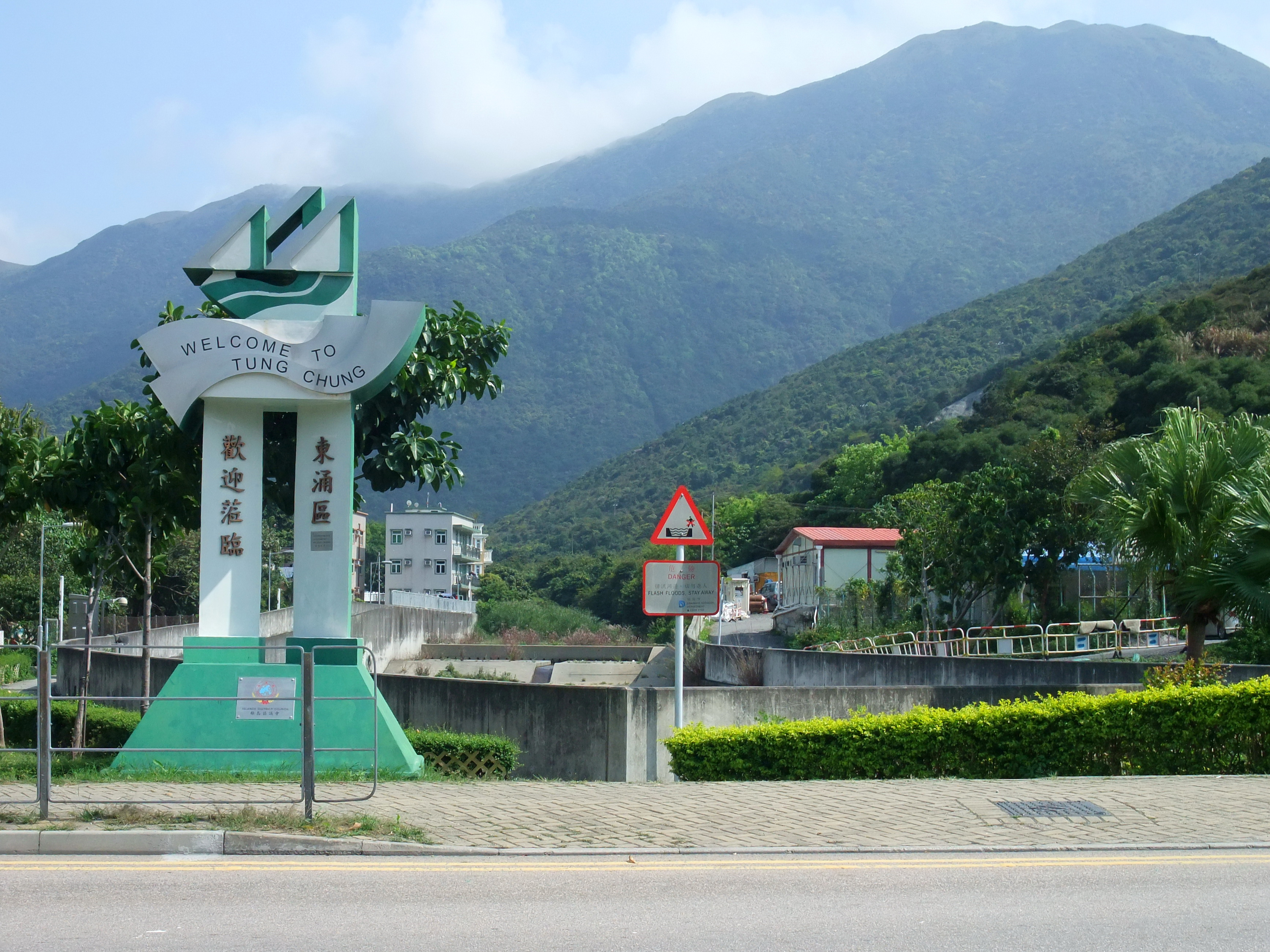 Welcome sign at Tung Chung Road set up by the Islands District Council at Tung Chung, Lantau Island, Hong Kong.